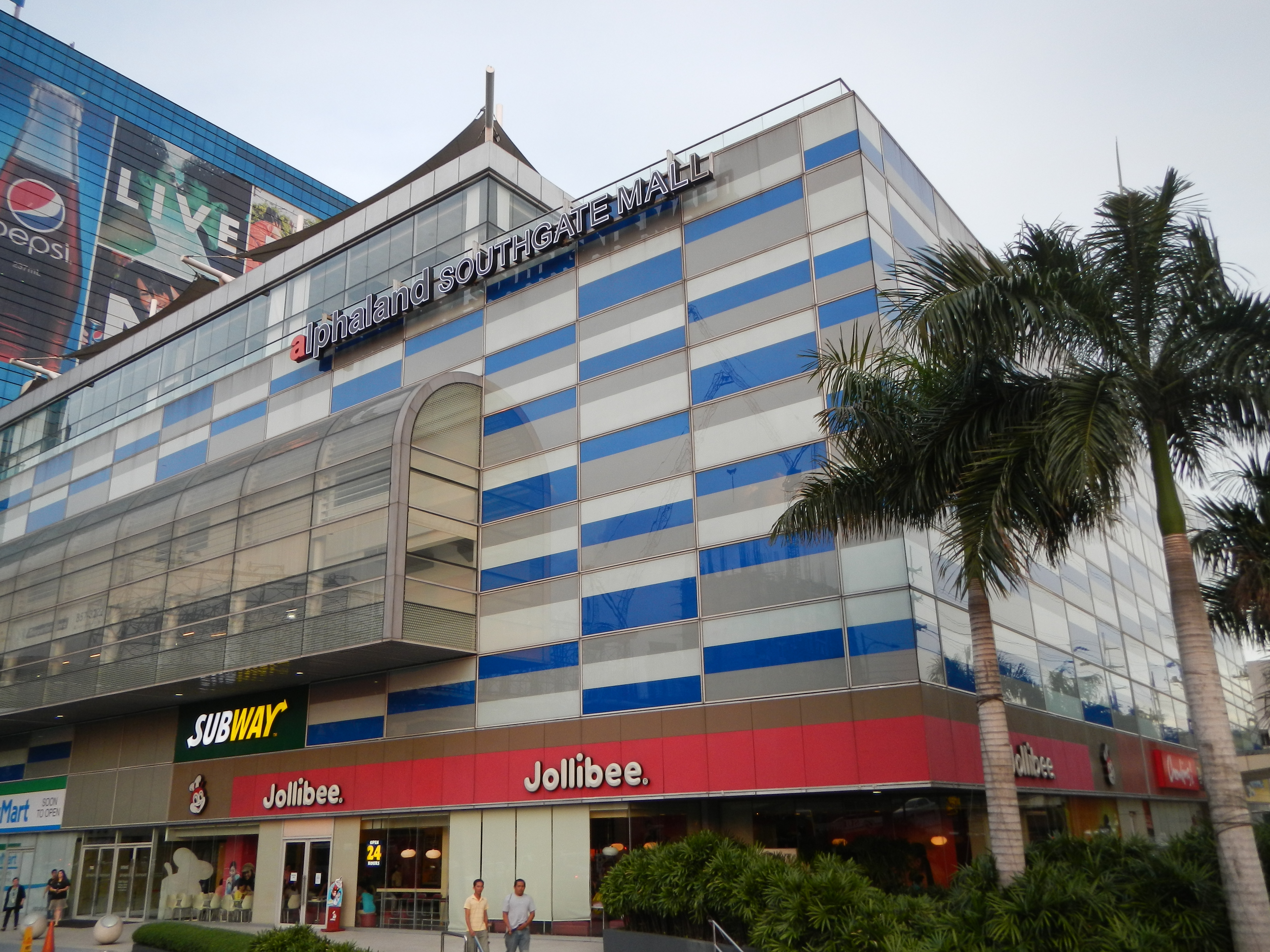 Alphaland Southgate Mall[1] (Makati City)[2] has 20,000 sq.m. of retail space with a roofdeck garden, serves as the podium of Soutgate Tower connected directly to the MRT-3 Magallanes Station. Coordinates: 14°32'27"N 121°1'8"E List of shopping malls in Metro Manila[3] - Magallanes MRT Station[4] EDSA railway station[5]